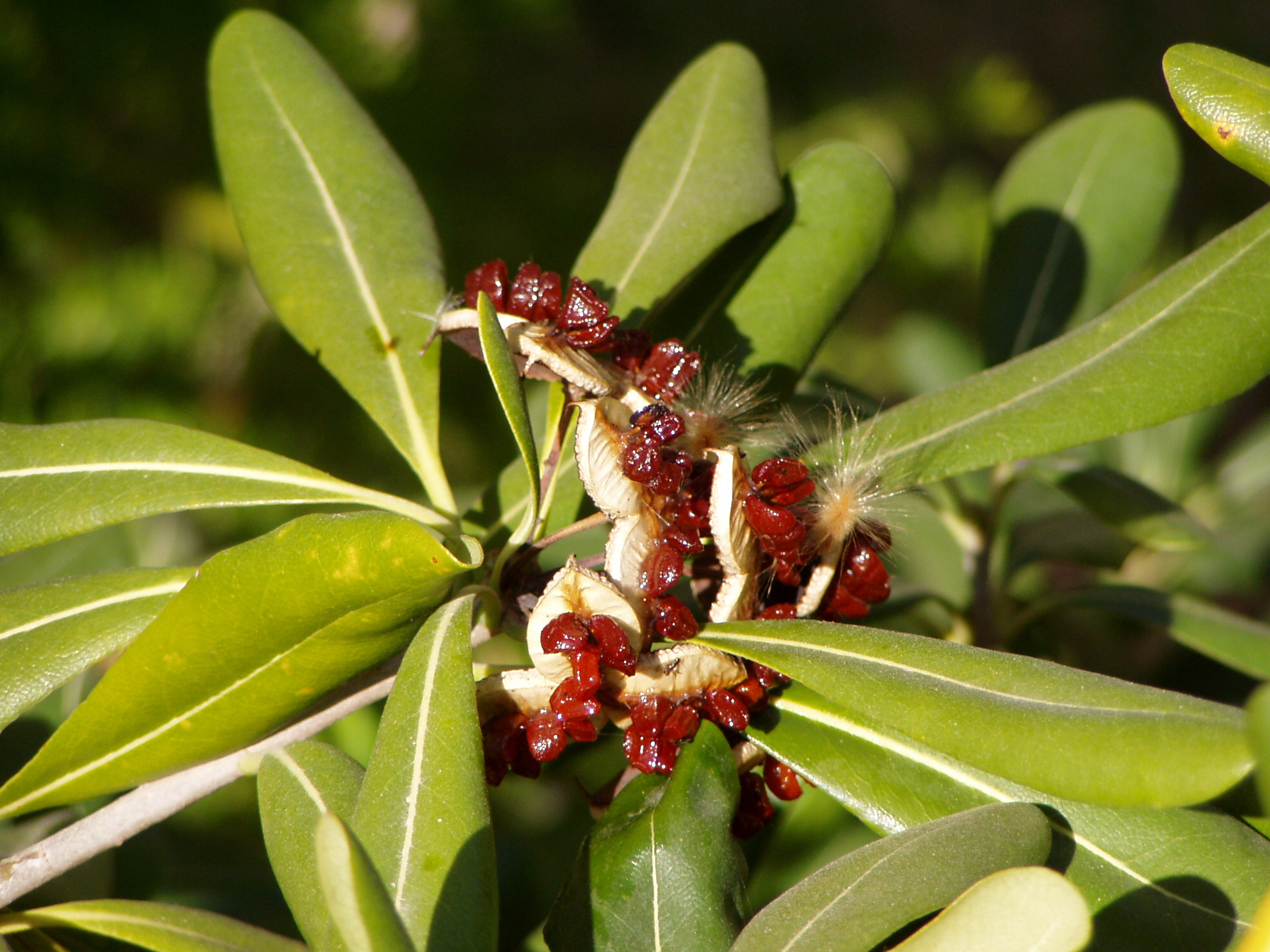 Japanese Cheesewood seeds.